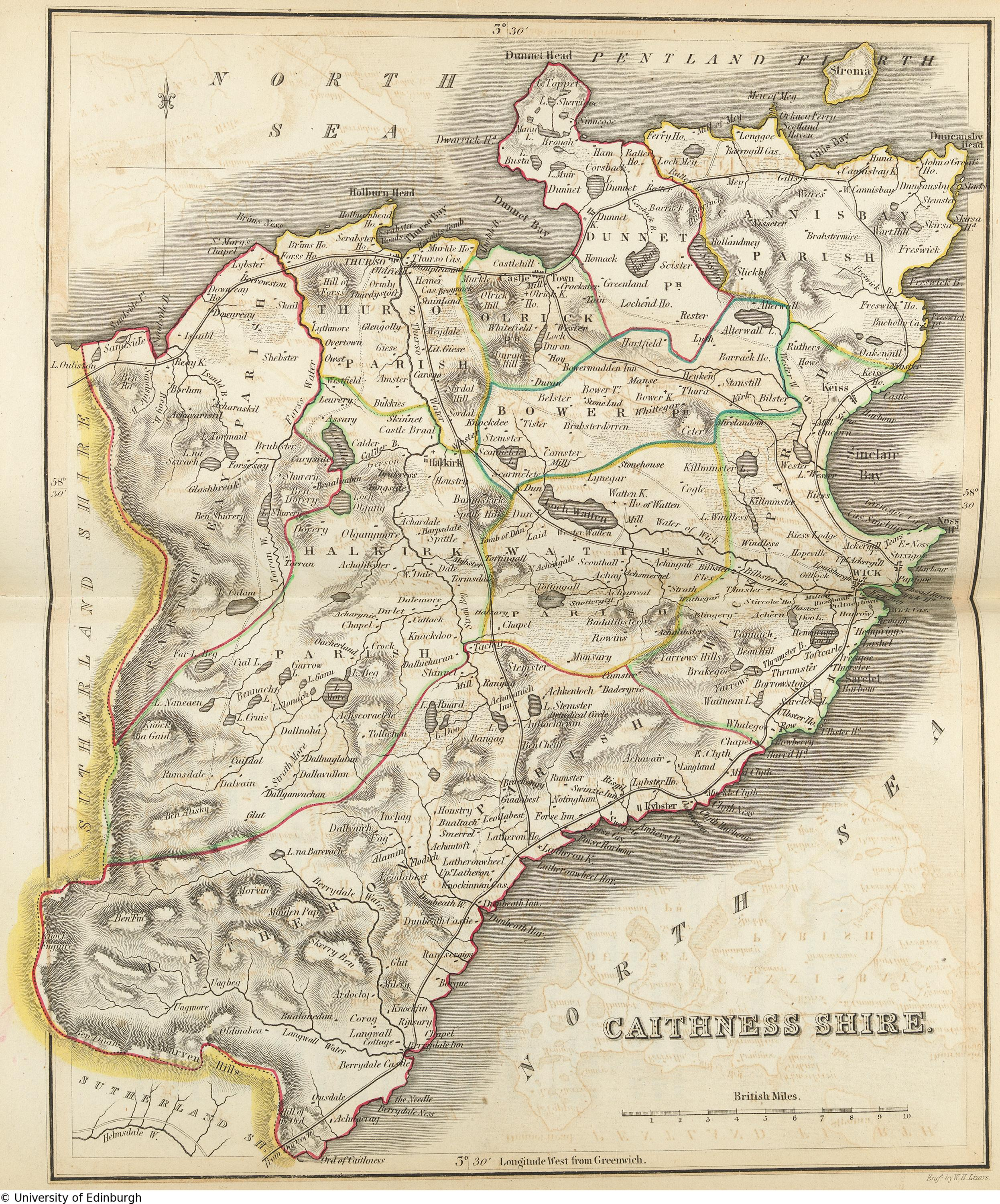 Caithness Shire map with parish boundaries, also published in the The New Statistical Account of Scotland, Vol. XV, William Blackwood & Sons, Edinburgh and London 1845